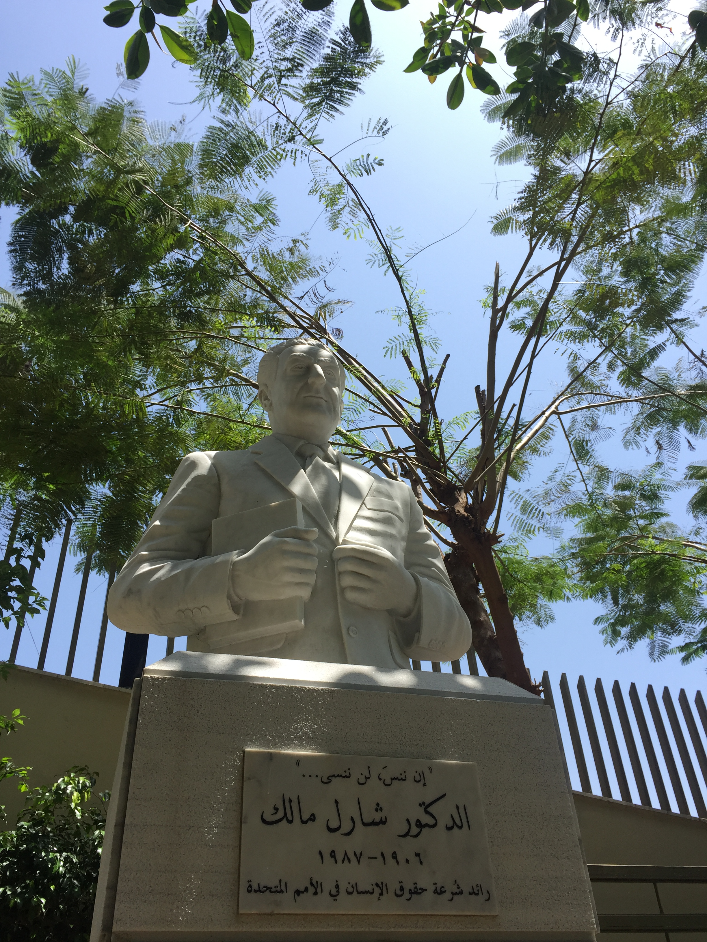 Charles Habib Malik (1906 - 28 December 1987) was a Lebanese academic, diplomat, and philosopher. He served as the Lebanese representative to the United Nations, the President of the Commission on Human Rights and the United Nations General Assembly, a member of the Lebanese Cabinet, a national minister of Education and the Arts, and of Foreign Affairs and Emigration, and theologian.